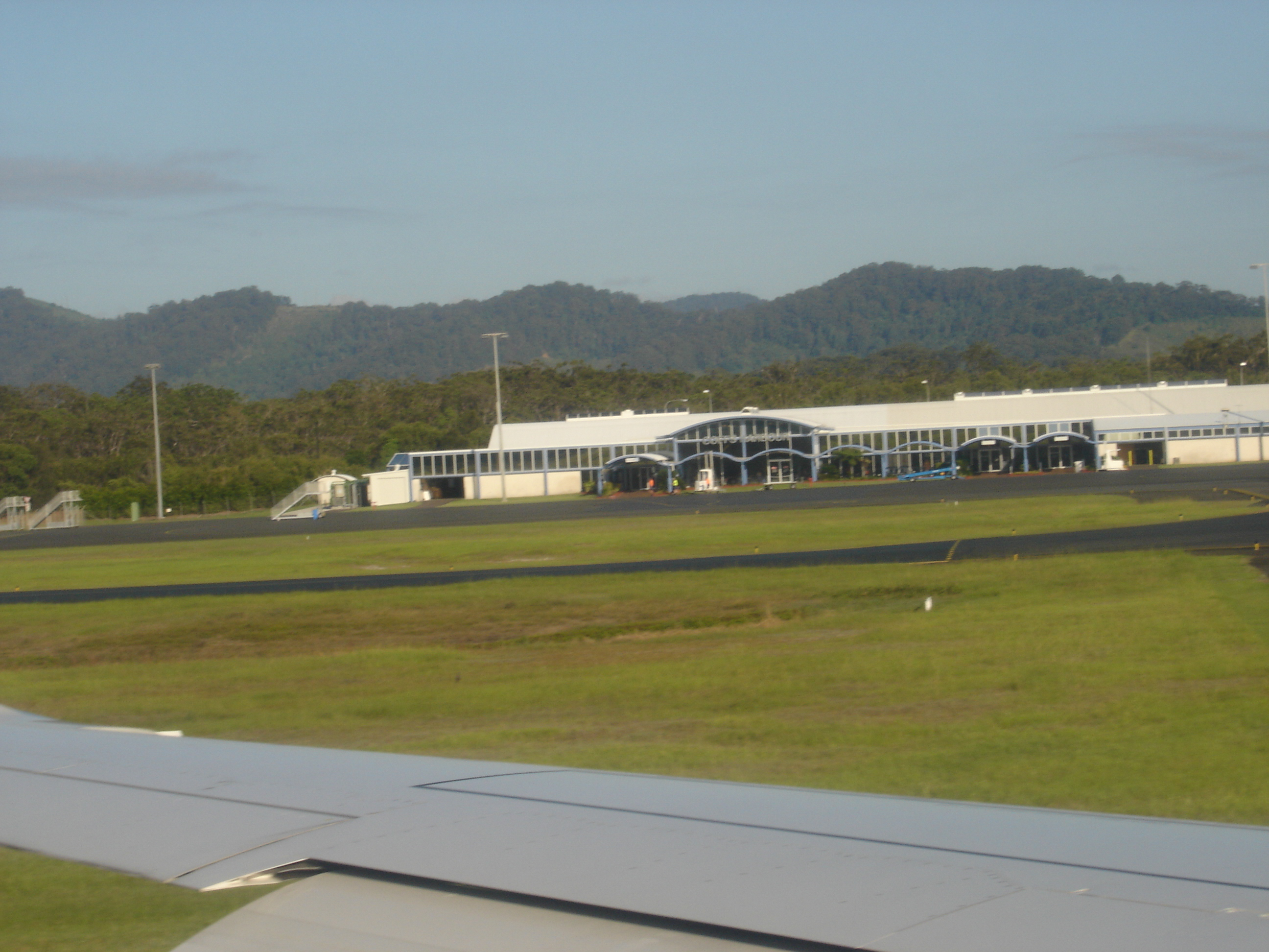 The image is of the Coffs Harbour airport terminal taken from the runway on an arriving aircraft. The door to the far left is for arrivals, with the other two doors being gates for departures.